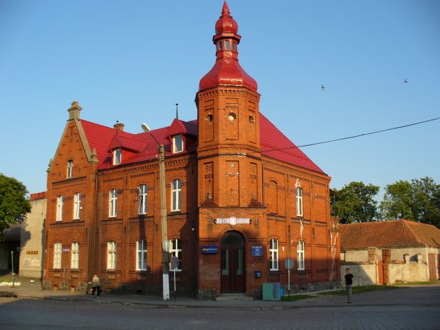 Ozyorsk - former post office